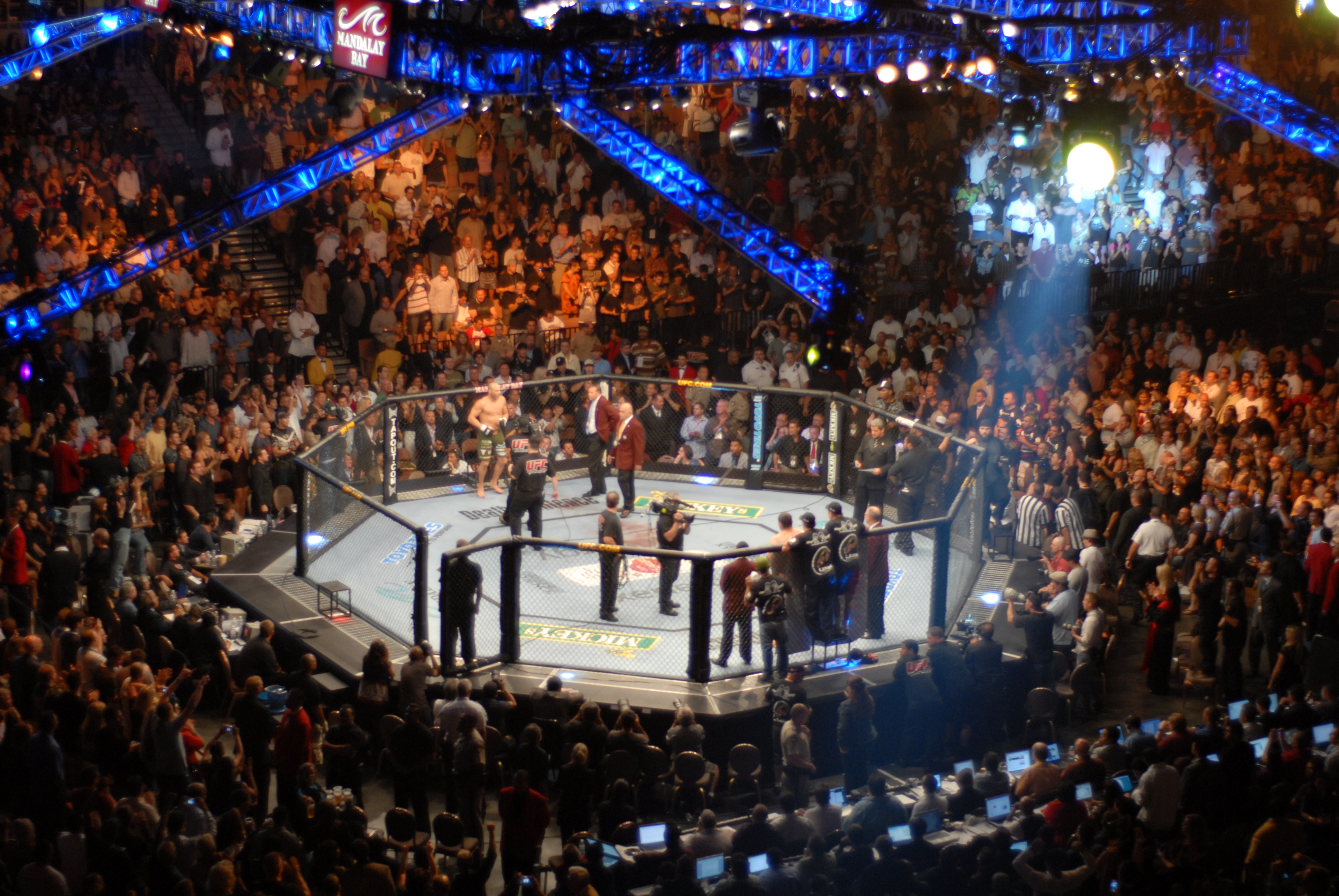 Source: original image on Flickr.